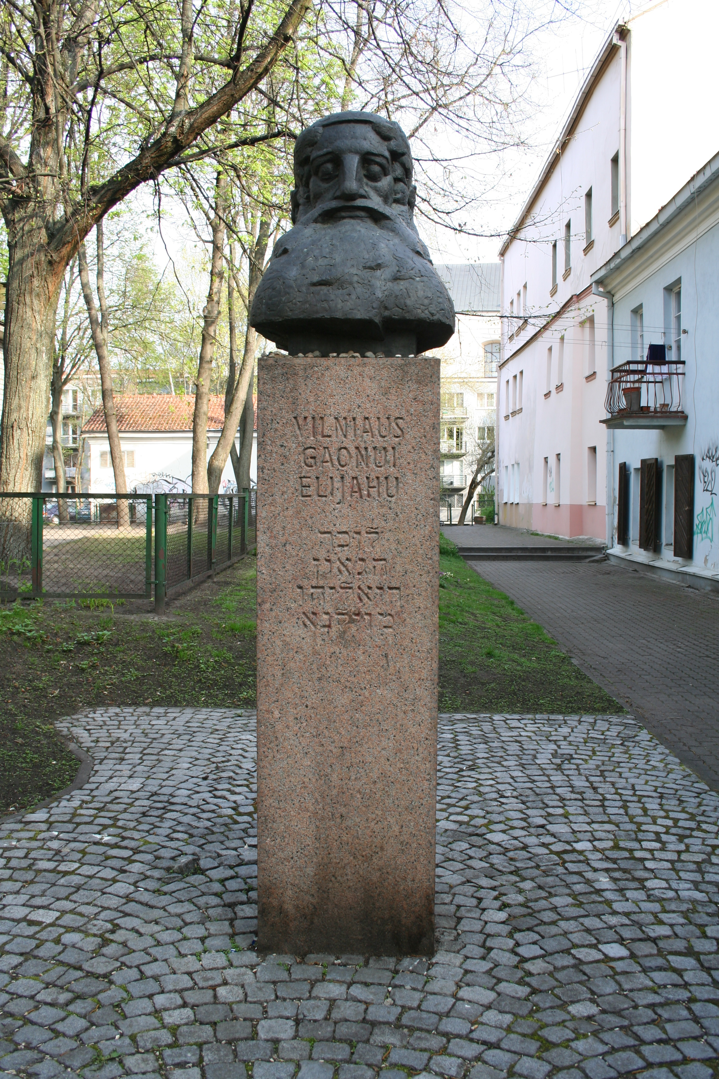 Bust of Eliyahu, the Gaon of Vilna (Vilnius, Lithuania); a little better photograph (more central composition, own work / not Flickr )